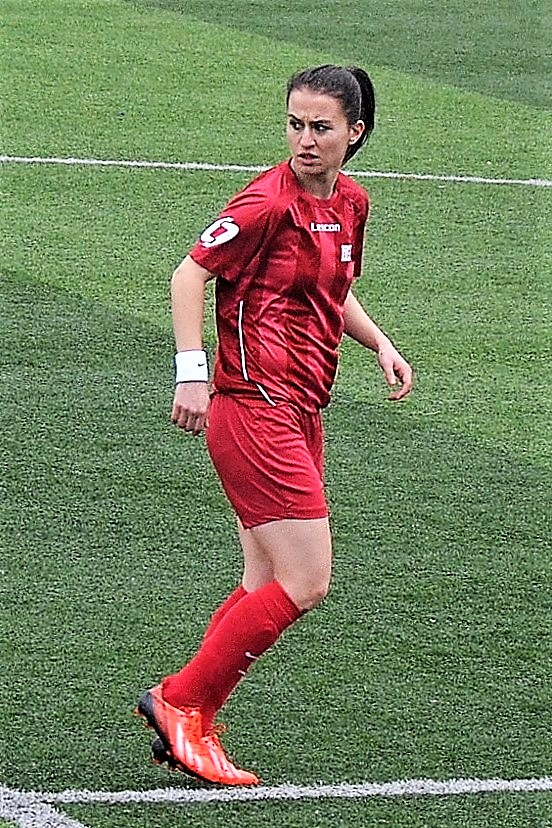 Fatma Kara for Ataşehir Belediyespor in the 2013-14 season